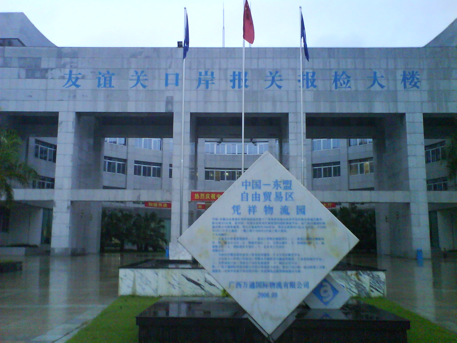 Guangxi_Pingxiang_Logistics_Center 中文（中国大陆）: 广西凭祥物流园兼检验检疫大楼